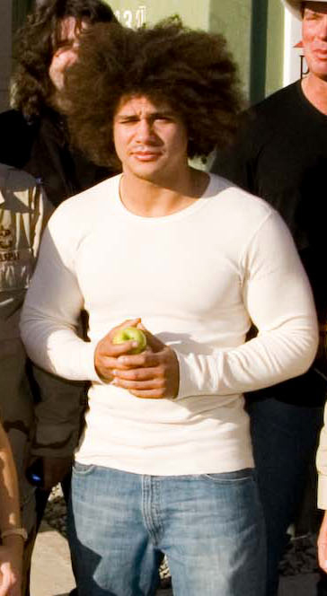 Cropped from PD image, Image:WWE wrestlers in Afghanistan.jpg